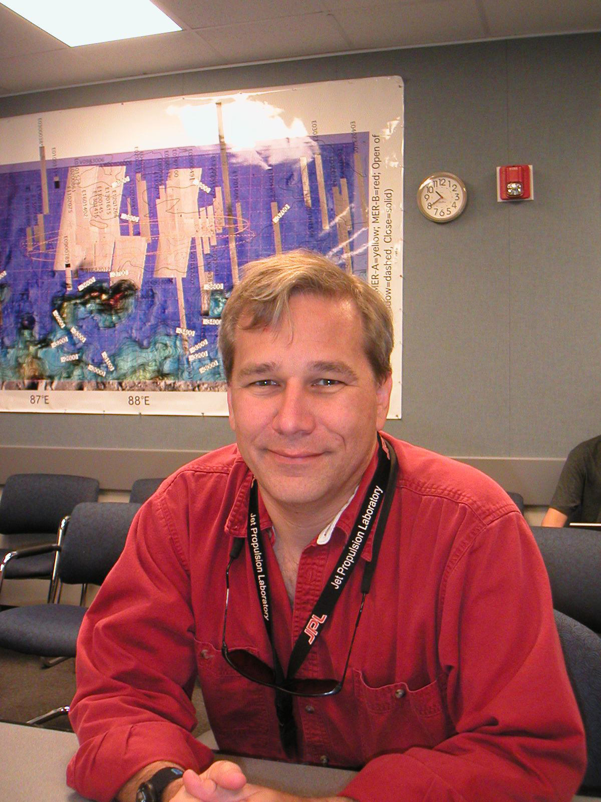 Dr. Mark Adler